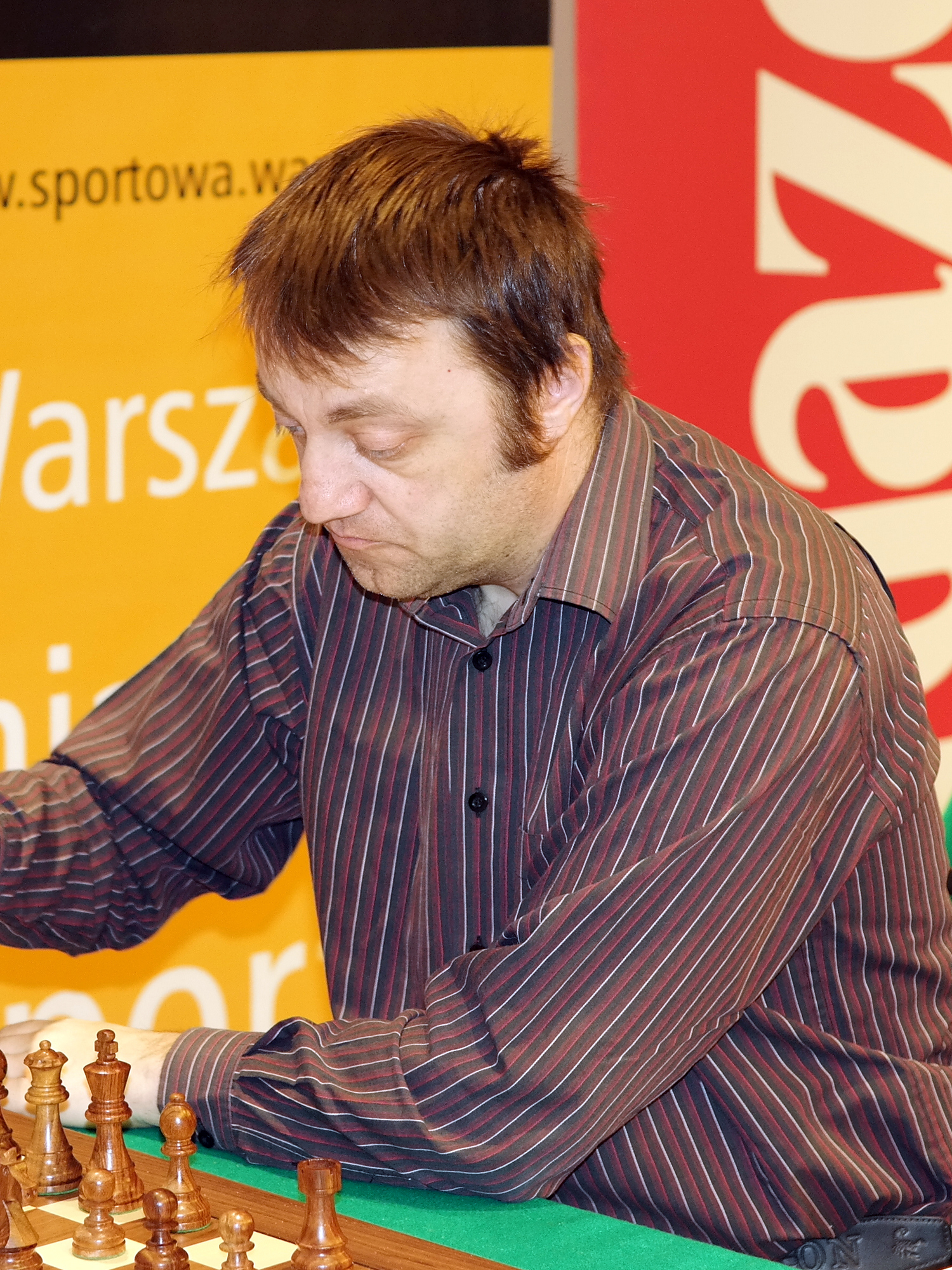 GM Mirosław Grabarczyk, Polish Chess Championship, Warsaw 2014